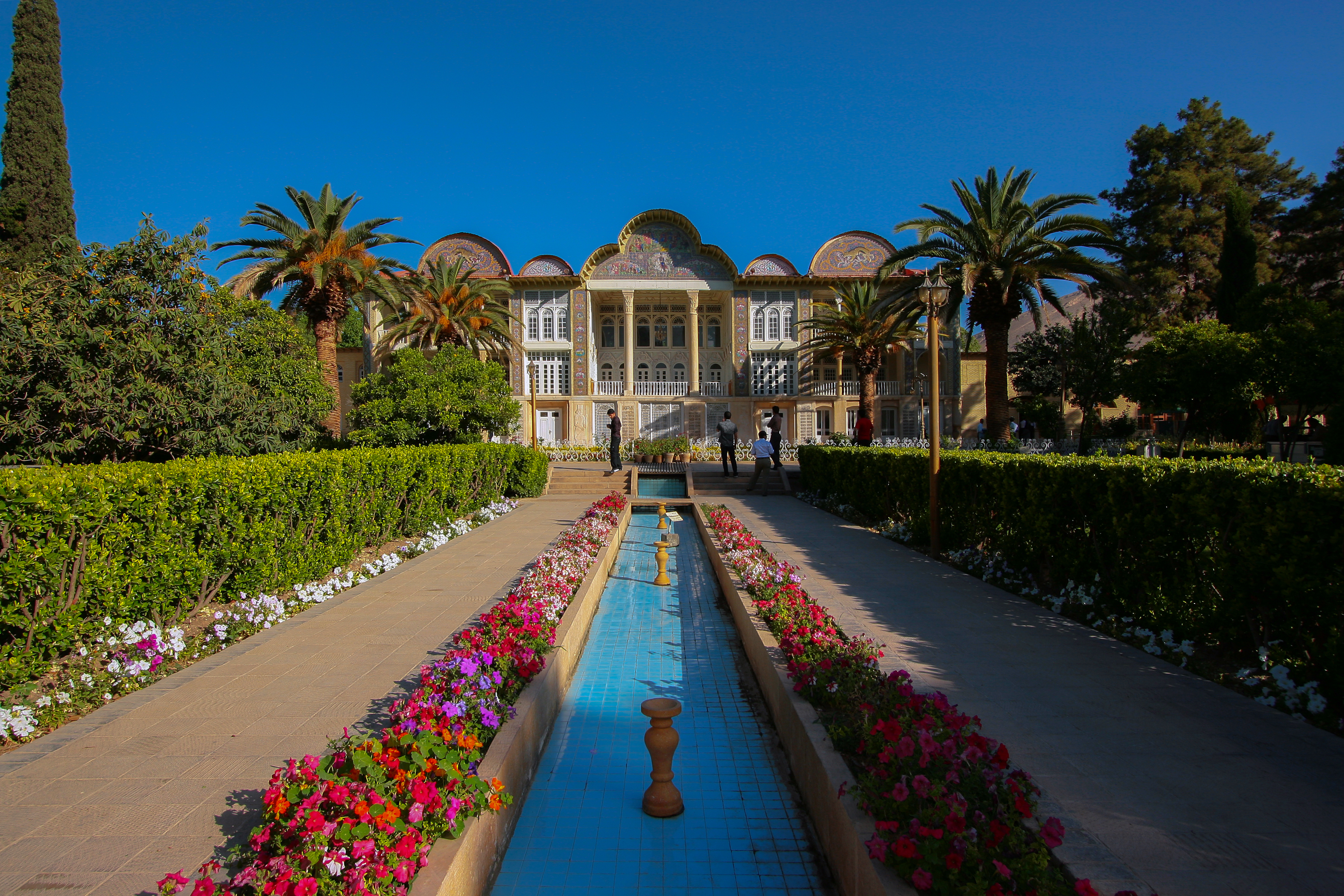 Eram Garden is a historic Persian garden in Shiraz, Iran.The garden, and the building within it, are located at the northern shore of the Khoshk River in the Fars province.